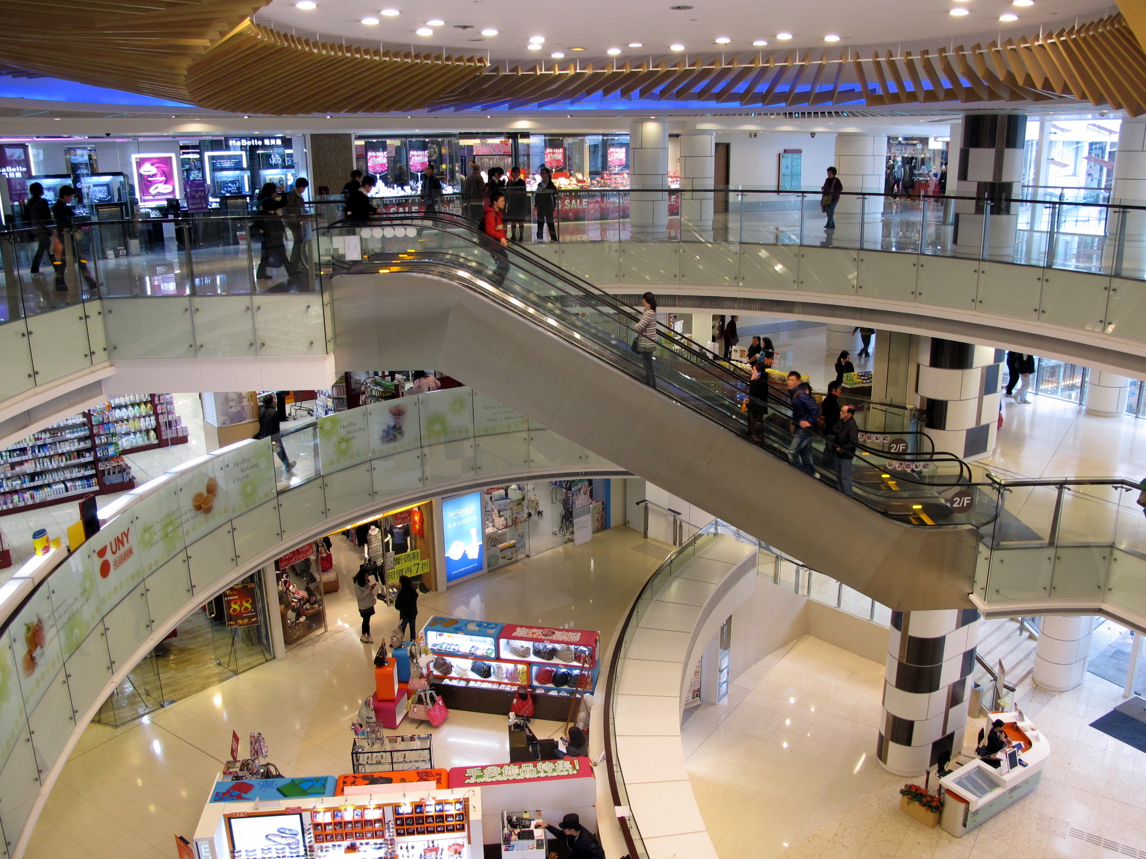 Lok Fu Plaza Phase1 New Atrium